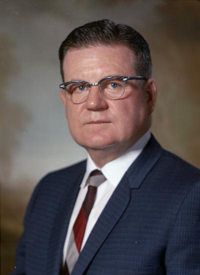 Representative Avery Garrett, 1967